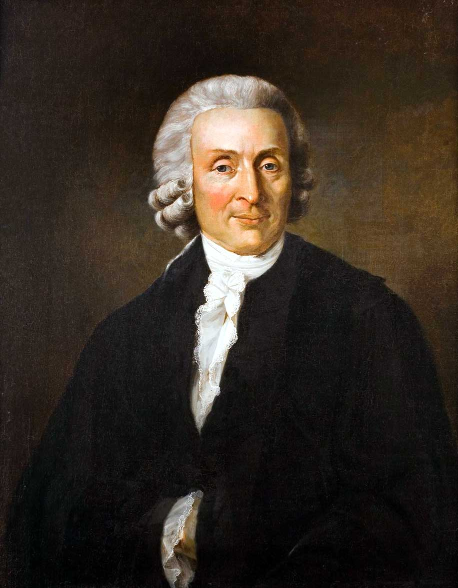 Friedrich Wilhelm Pestel also: Frederik Willem Pestel (1724-1805) German Lawyer, University Professor